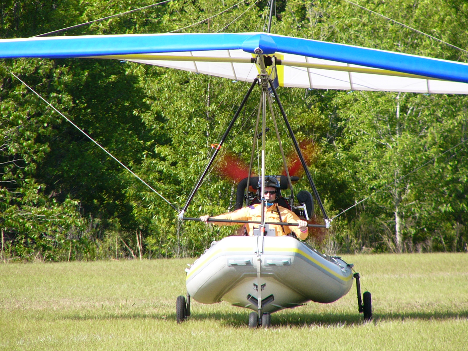 Polaris AM-FIB Flying Inflatable Boat seen at Sun 'n Fun 2004